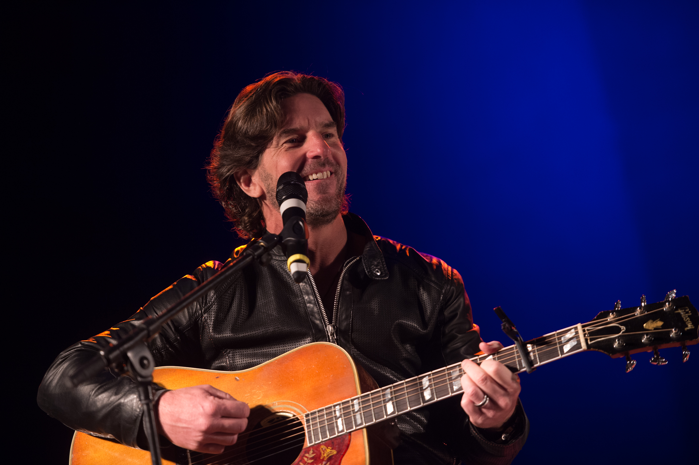 Song writer Brett James performs in a USO show for military members and their families at Ramstein Air Base, Germany, Dec. 9, 2015. The USO entertainers traveled to various locations to visit service members who are deployed from home during the holidays. (DoD photo by D. Myles Cullen/Released)